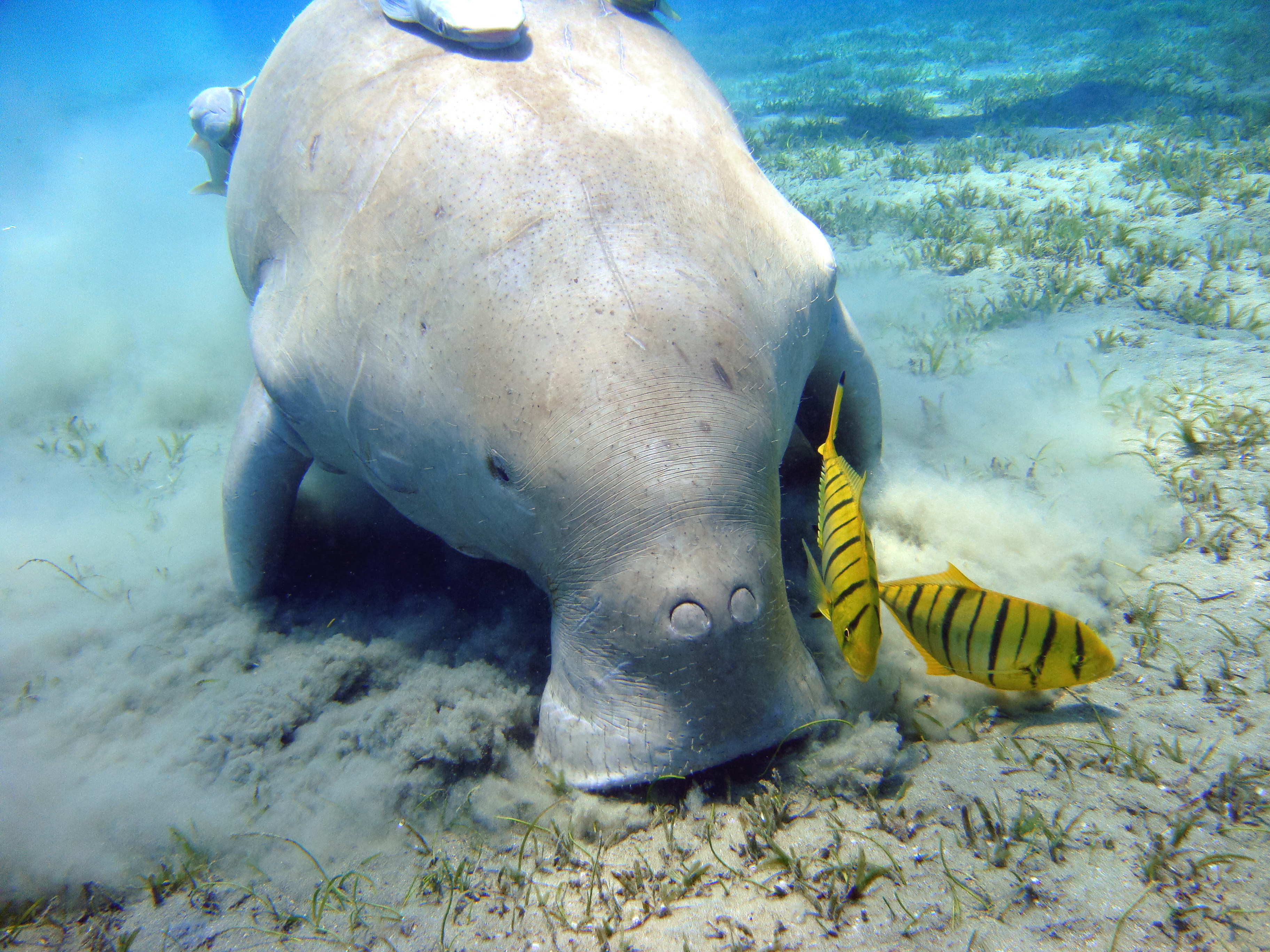 A Dugong near Marsa Alam (Egypt).